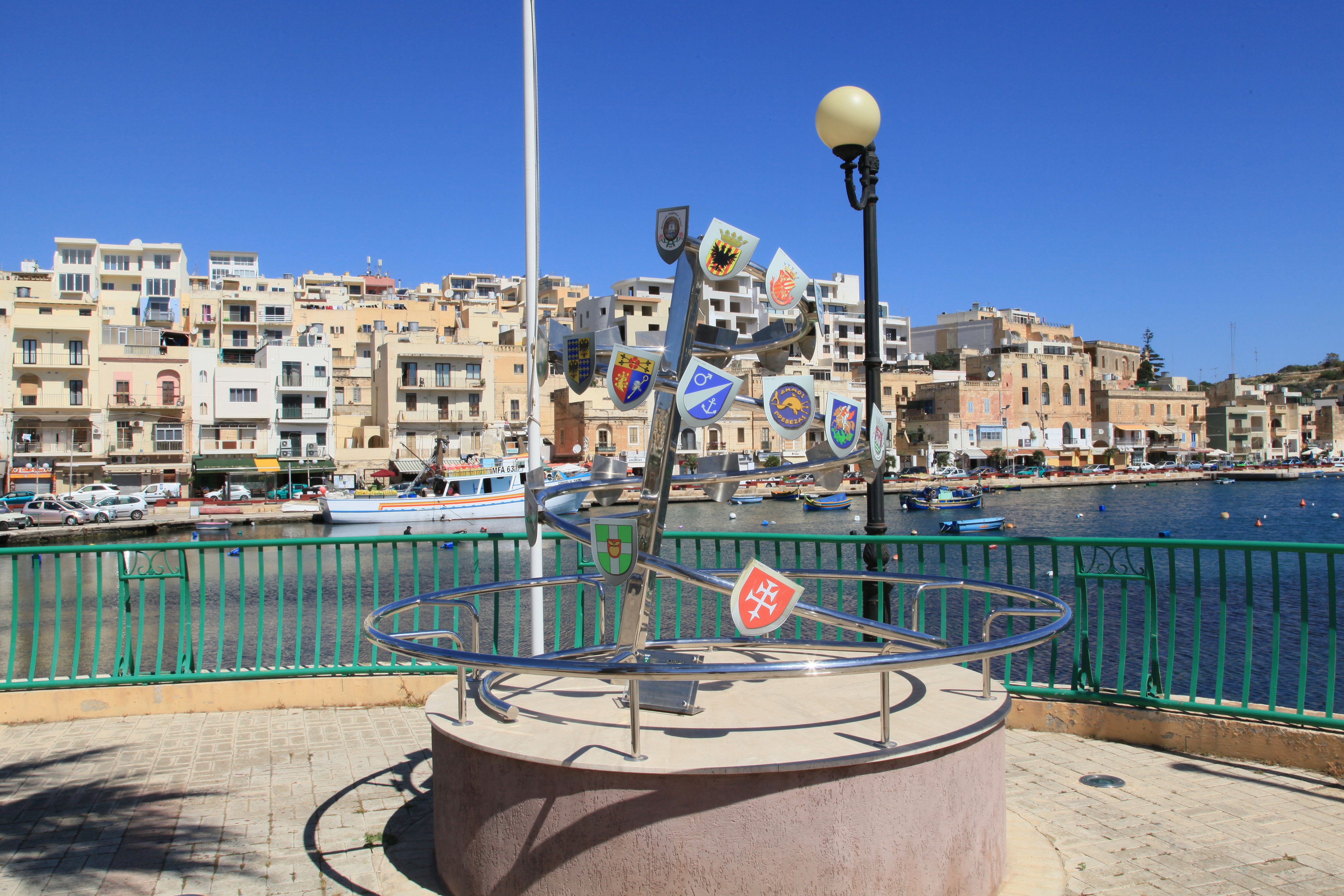 Town twinning memorial at Triq Ix-Xatt in Marsaskala, Malta